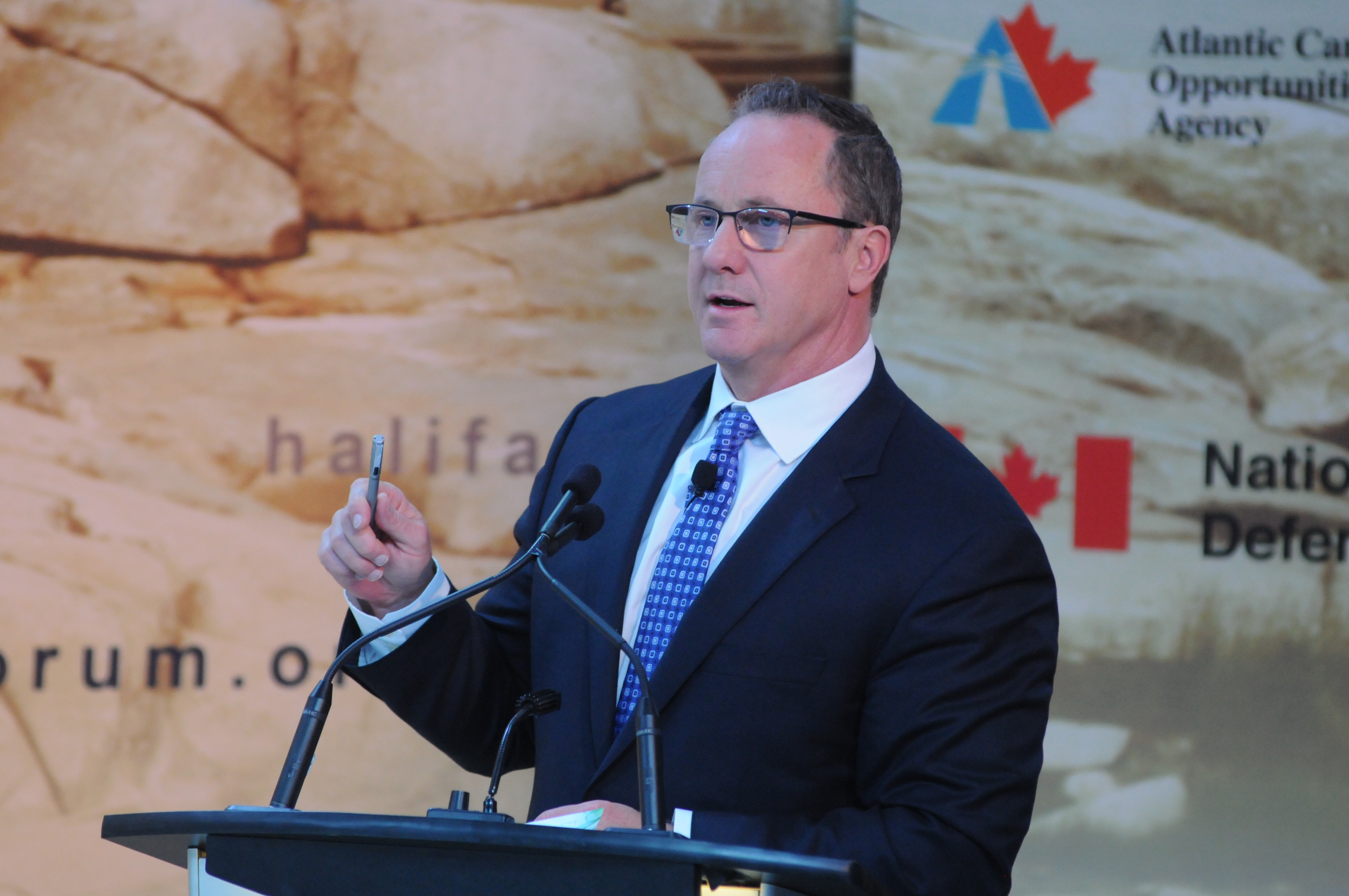 CTV's Kevin Newman moderates a panel entitled, "Syria’s Terror, the Middle East’s Tragedy" at the 2012 Halifax International Security Forum.